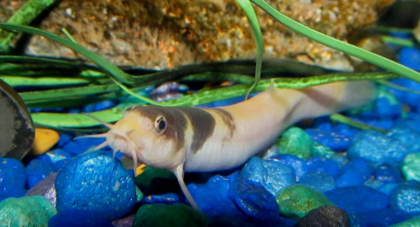 Dojo loach (Misgurnus anguillicaudatus)in aquarium